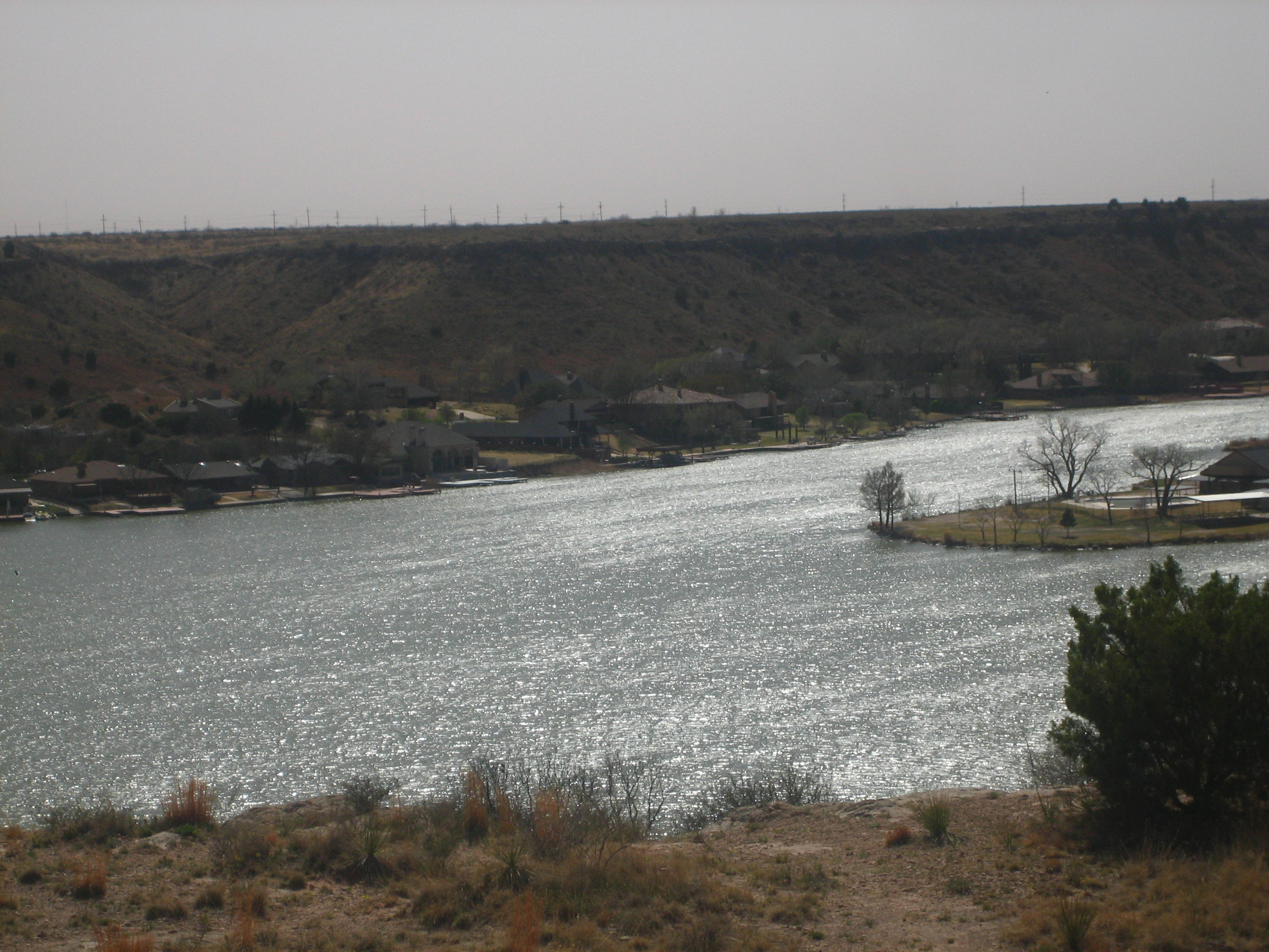 Ransom Canyon Lake — a reservoir on the Double Mountain Fork Brazos River, in Ransom Canyon, West Texas.